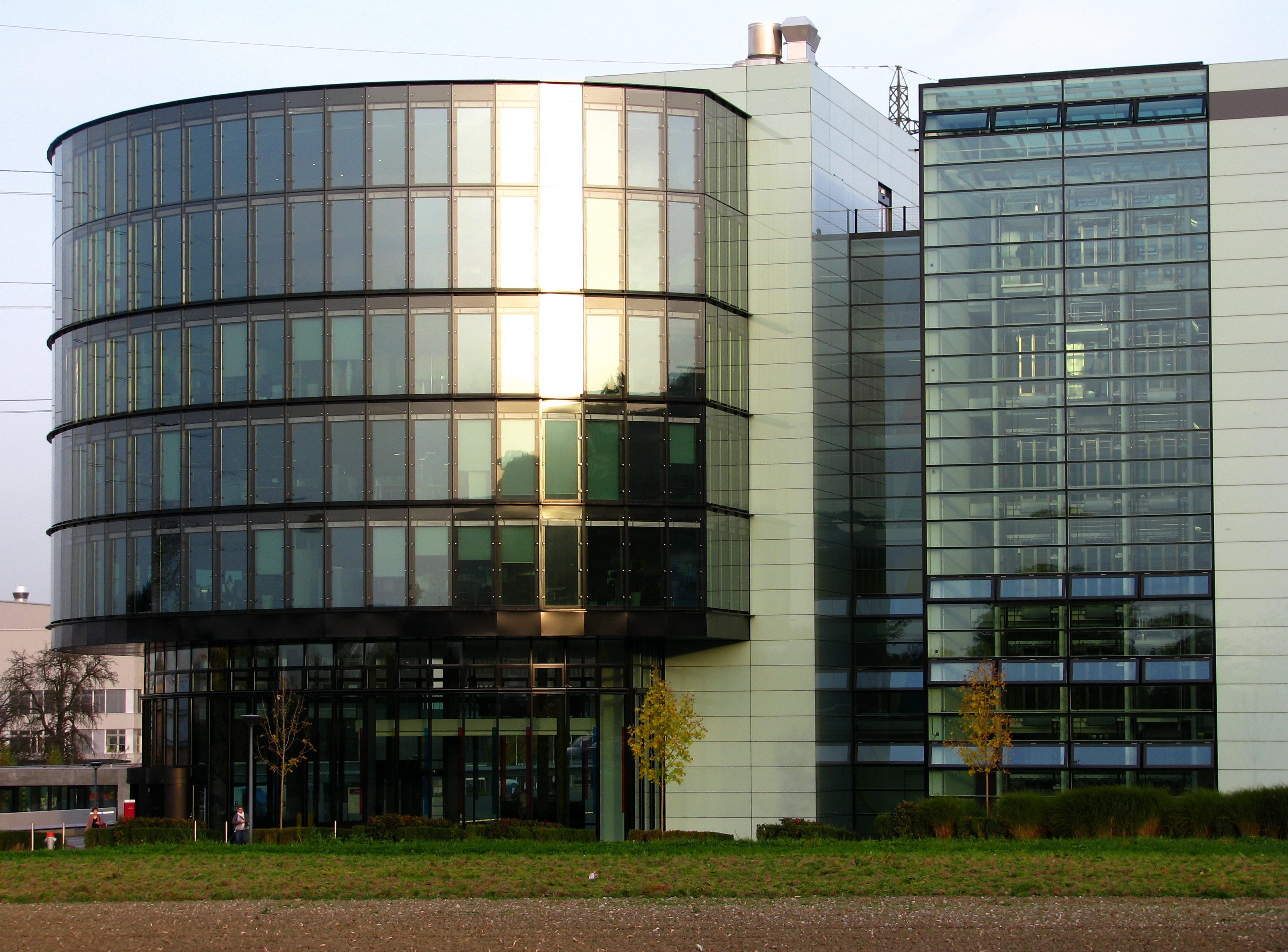 Dübendorf : Helsana Assurances, Administration building nearby Railway station Zürich-Stettbach.